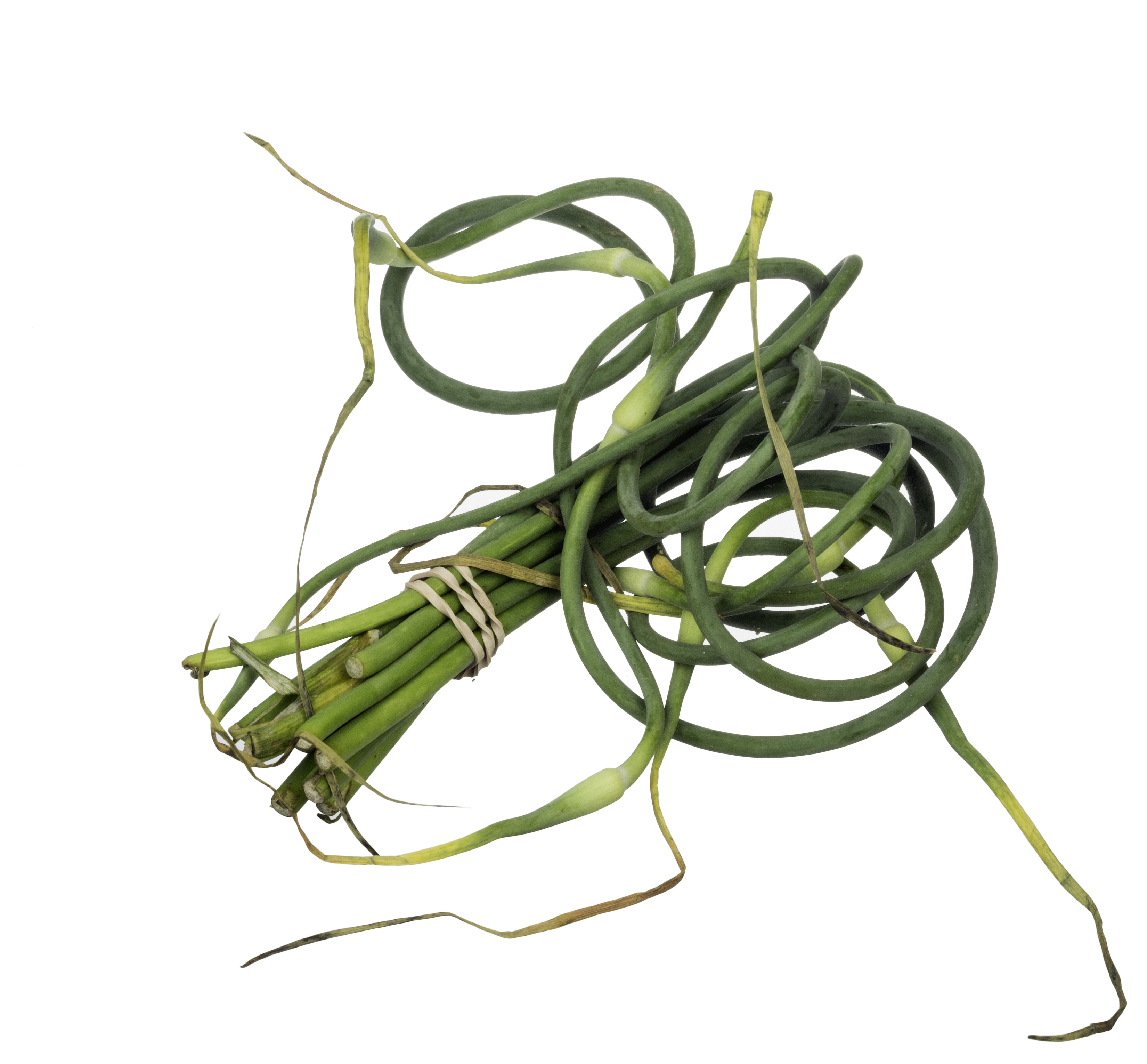 A bundle of garlic scapes, from an organic food co-op.